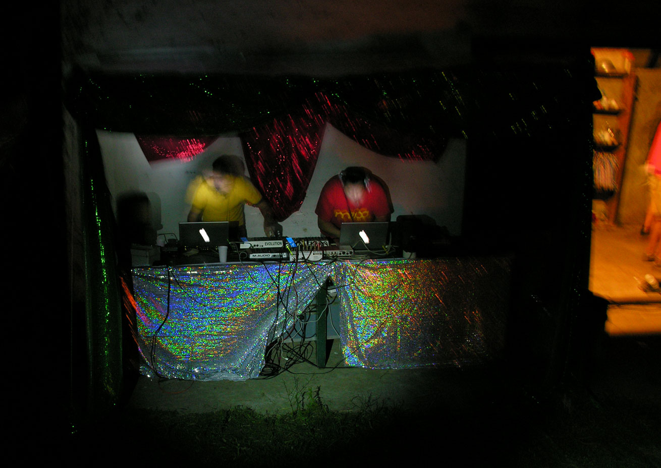 King Coya + Trip Selector Dj Set No Joya Party February 2007, Mercedes, Buenos Aires, Argentina